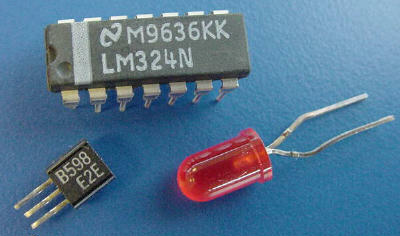 semiconductors